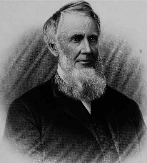 John James Taylor, New York Congressman and Judge